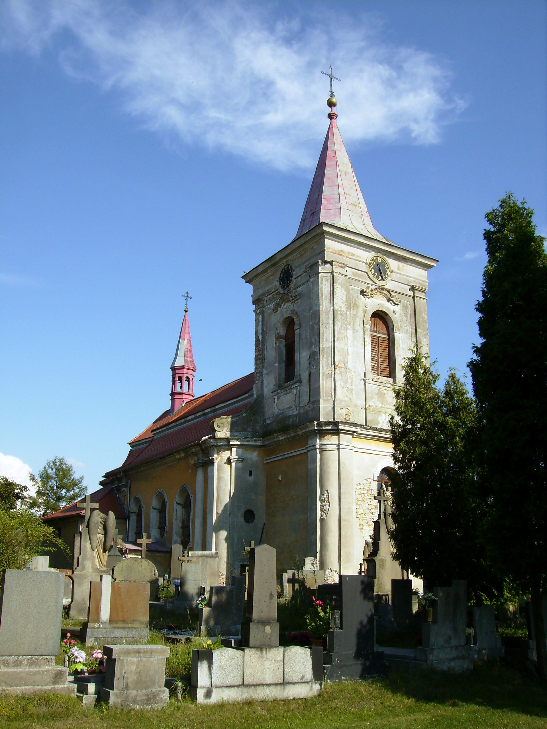 Saint Wenceslas church in Hrubý Jeseník, Nymburk District, Czech Republic.